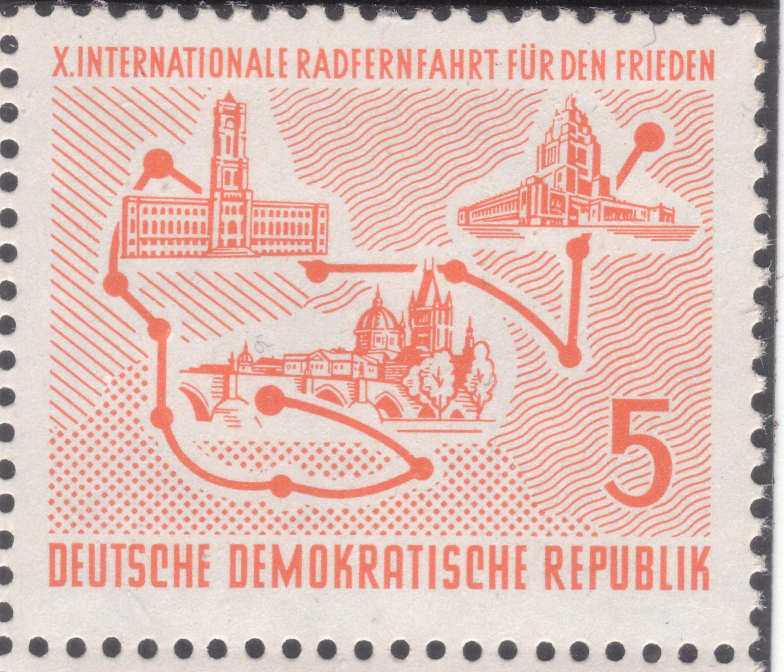 Peace Race in 1957 Graphic designer: Petersen Ausgabepreis: 5 Pf First Day of Issue / Erstausgabetag: 30. April 1957 Michel-Katalog-Nr: 568